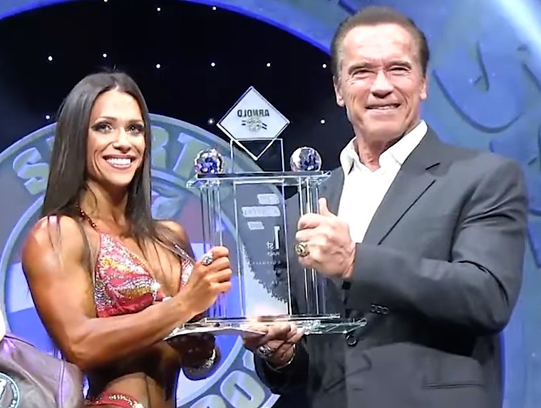 2014 Arnold Classic Oxana GRISHINA Tento videoklip bol natočený pre portál EastLabs.sk, v spolupráci s internetovým obchodom ObchodRonnie.sk